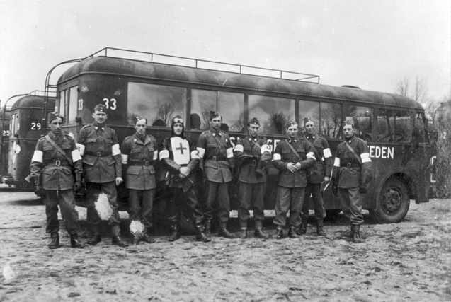 Hässleholm, Sweden; Swedish Red Cross rescuers before their departure for Germany.